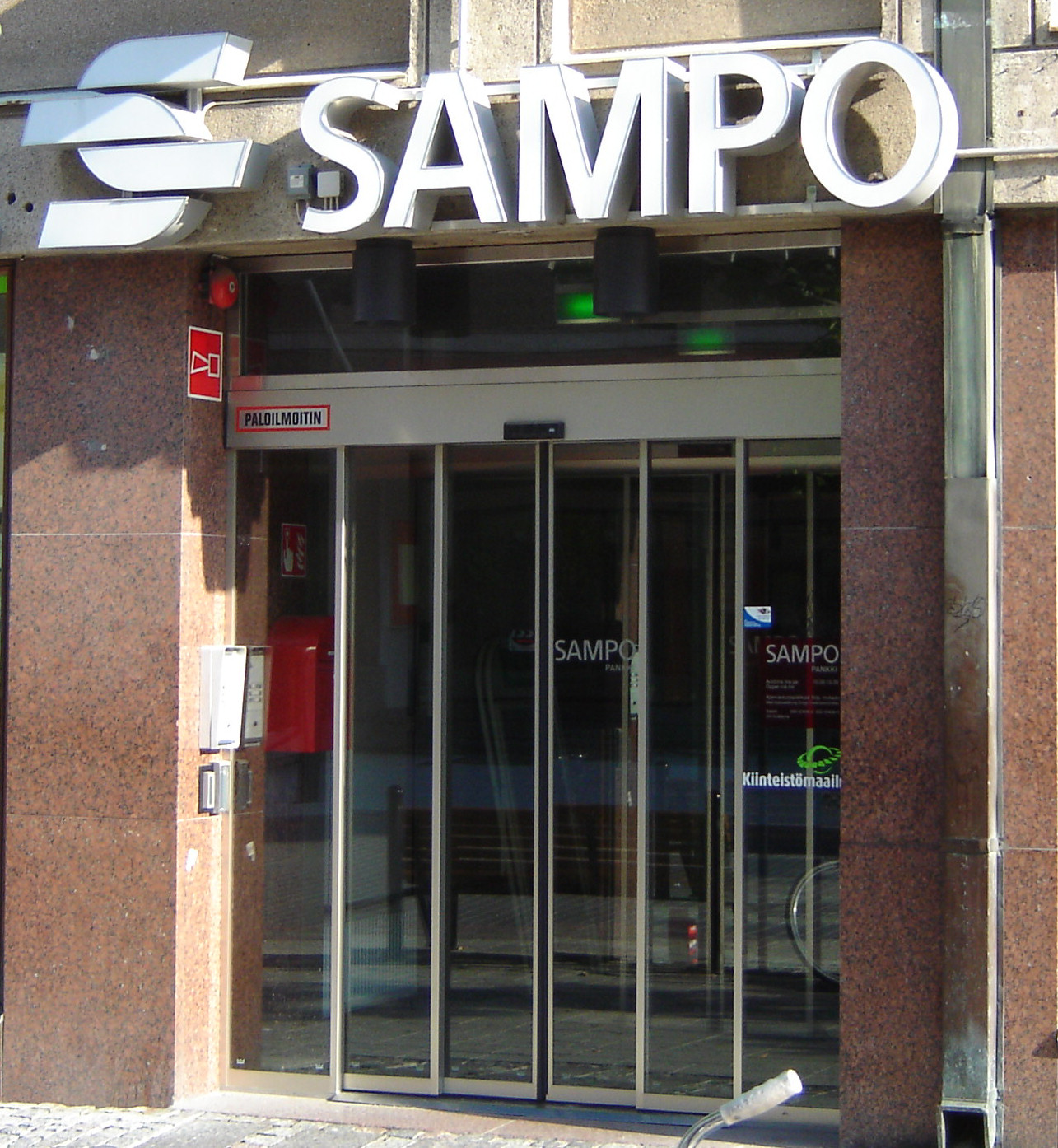 Branch of the Sampo bank in central Turku, Finland Source: self-made, 2006-08-27 Author: BishkekRocks